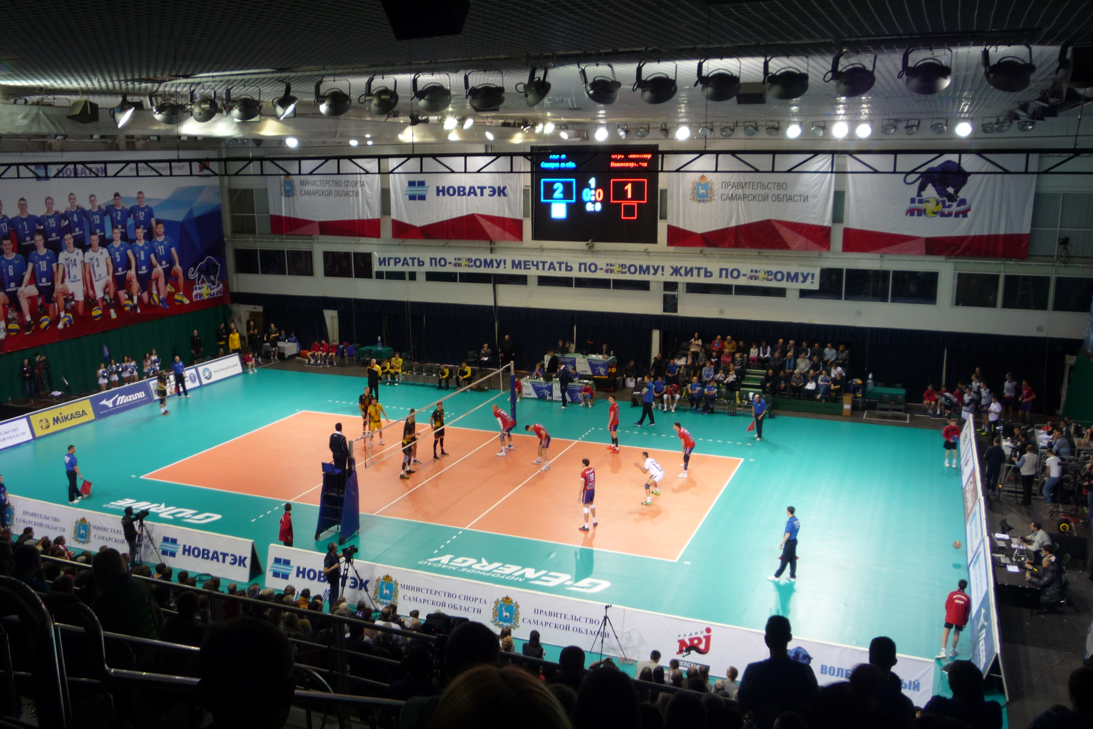 2016-17 Russian Volleyball Super League, 14th week. VC Nova Novokuybyshevsk hosting VC Ugra-Samotlor Nizhnevartovsk in their first game at MTL-Arena in Samara. The first set is underway.